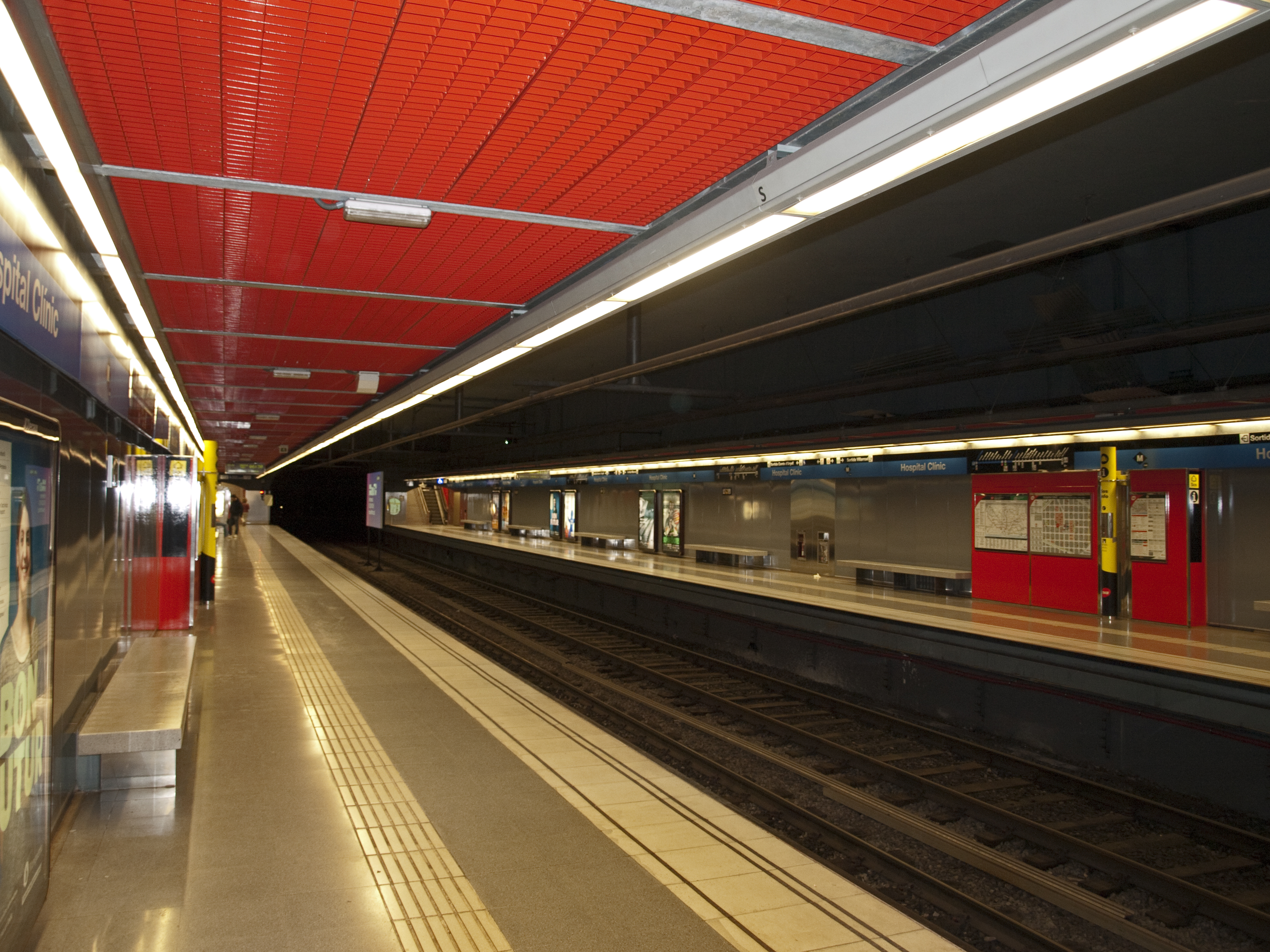 Hospital Clinic station